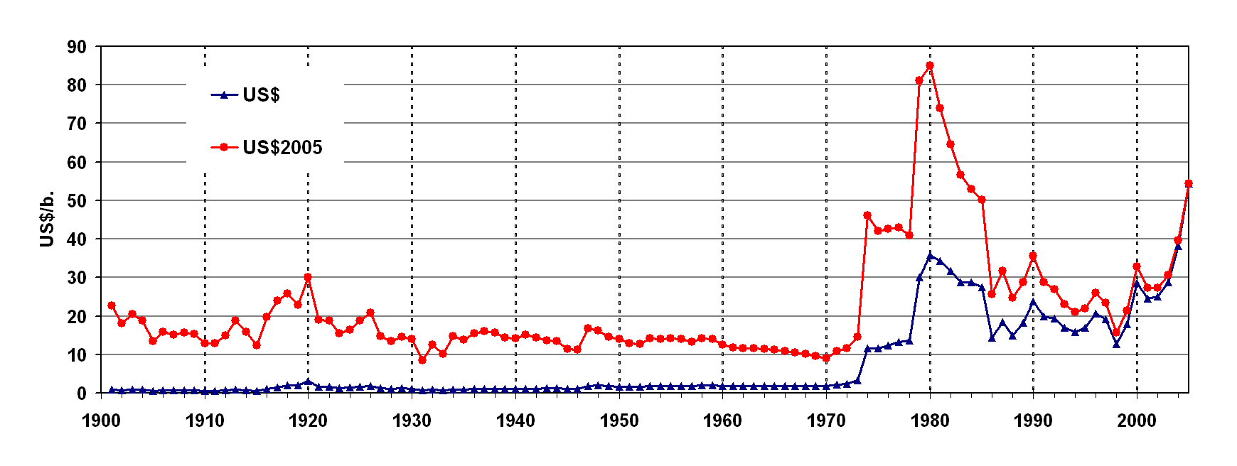 Evolution of the crude oil price (data by BP, see raw data at the bottom): nominal prices (2005=100%) and real prices in US dollar; not language specific (int).